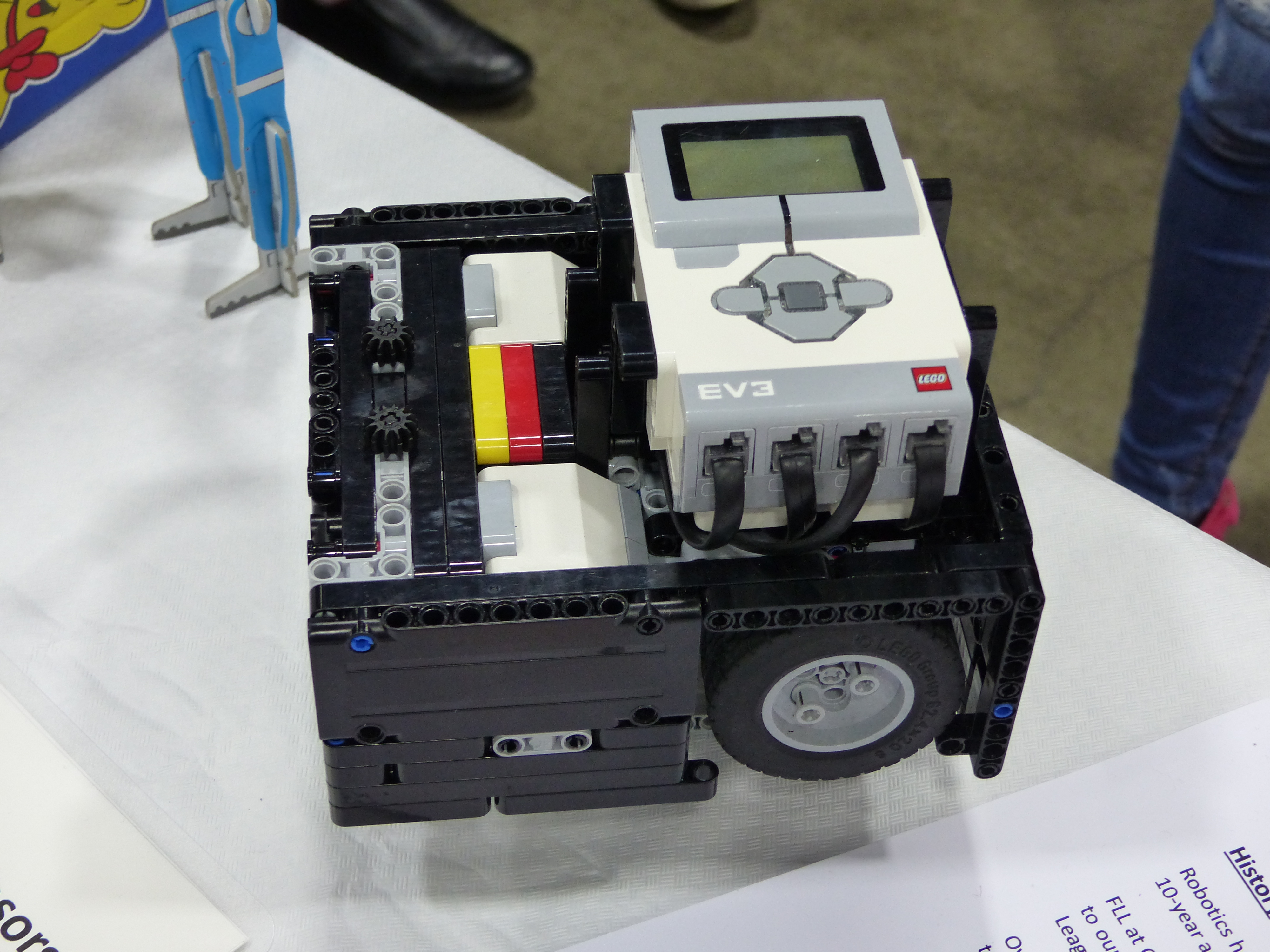 from the German speaking countries, there was 1 German, 1 Austrian and 1 Swiss team in Detroit (FLL)